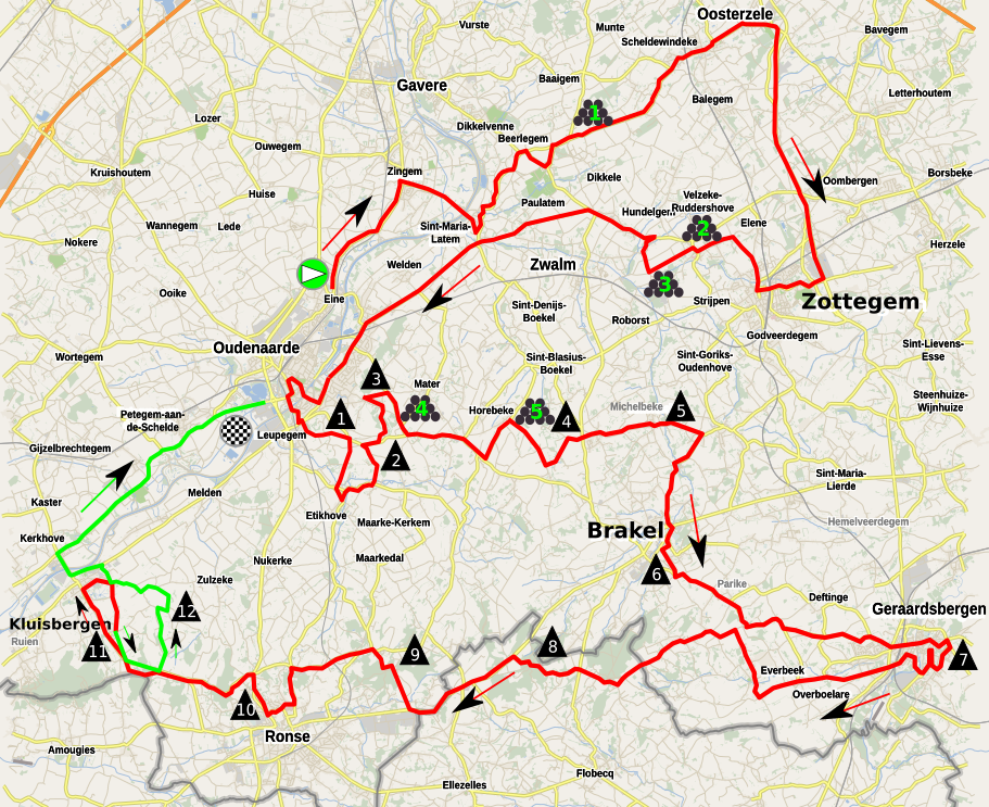 Map of the Ronde van Vlaanderen vrouwen 2017.